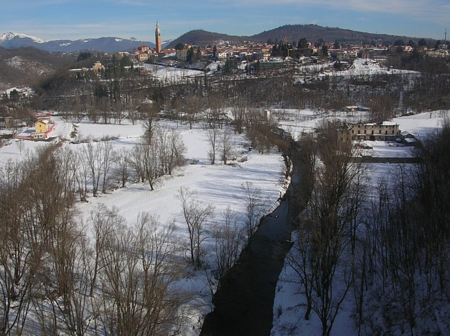 Fiume Olona vicino a Malnate (VA) River Olona near Malnate (VA) Italy Picture taken by user:Idéfix, 1 feb 2006